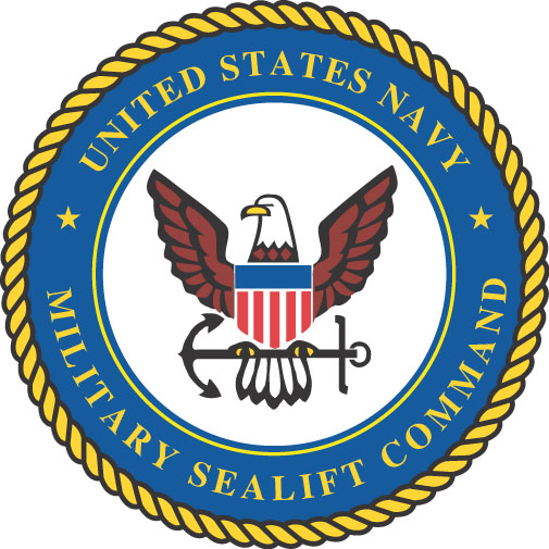 Military Sealift Command Seal